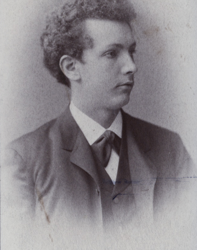 Photo of Richard Strauss, dated 20.10.1886 (Oct 20 1886)